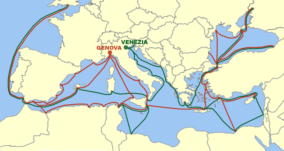 Genoese (red) and Venetian (green) maritime trade routes in the Mediterranean and Black Sea.